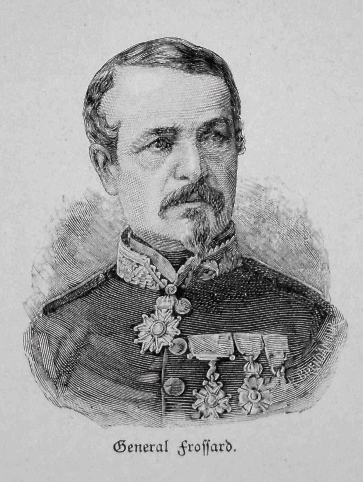 general Charles Auguste Frossard